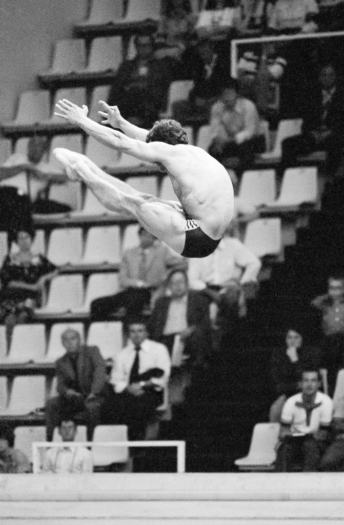 “1980 Olympics' silver medalist in 3 meter springboard diving Carlos Giron, Mexico”. Silver medalist in 3 meter springboard diving Carlos Giron, Mexico. Diving competition in Olimpiysky sports complex' swimming pool. XXII Summer Olympic Games. July 19 - August 3, 1980.